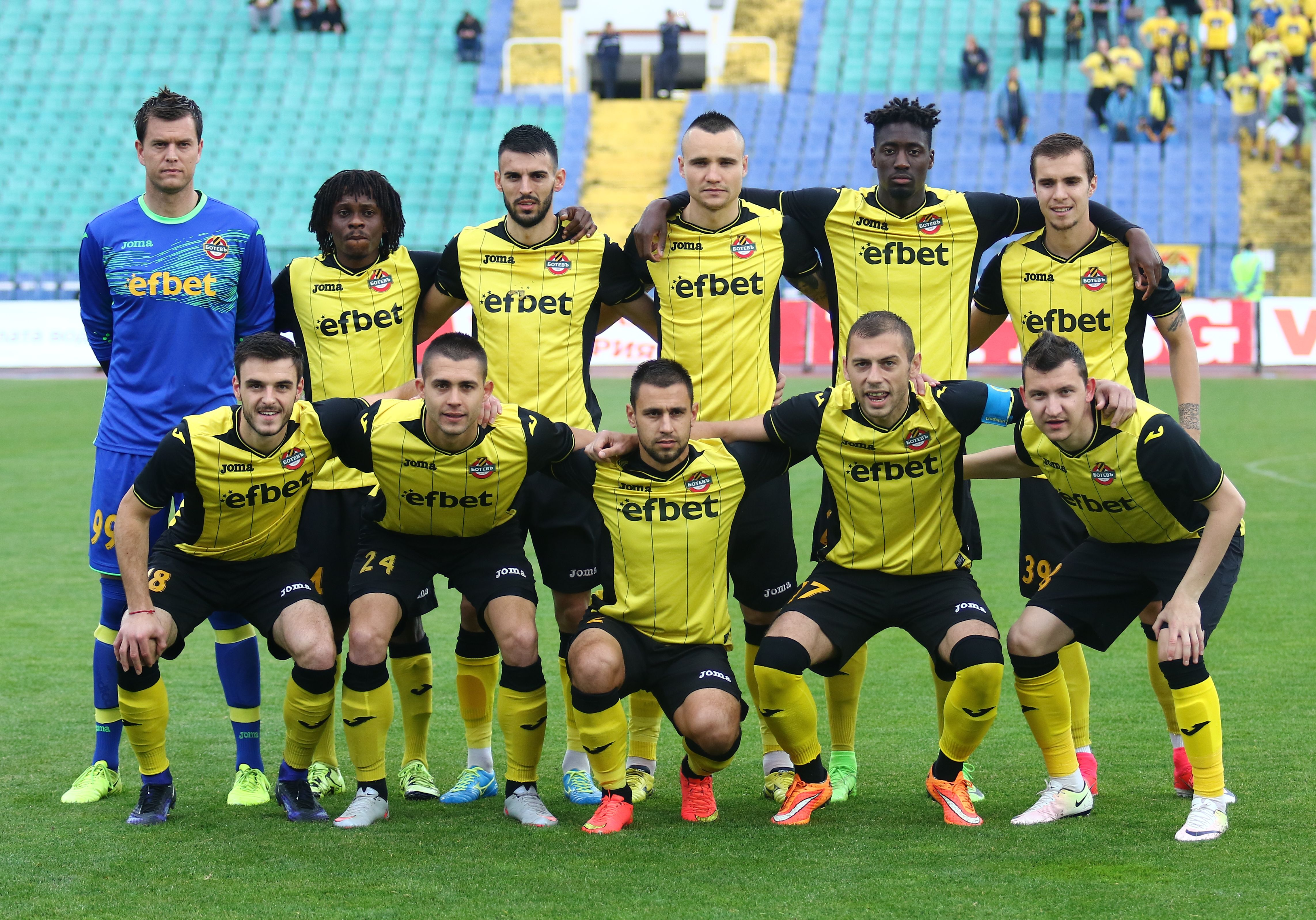 FC Botev Plovdiv-football team from Bulgaria, winner of Cup of Bulgaria Tnd 2017